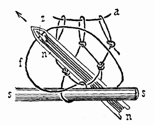 One method of making nets, by tying a sheet bend using a netting needle and a spacer. a) head rope f) loop of the sheet bend being tied n) netting shuttle s) spacer (to keep mesh size constant) z) tongue of the netting shuttle (makes it easier to load the twine so that it does not twist as it is used)